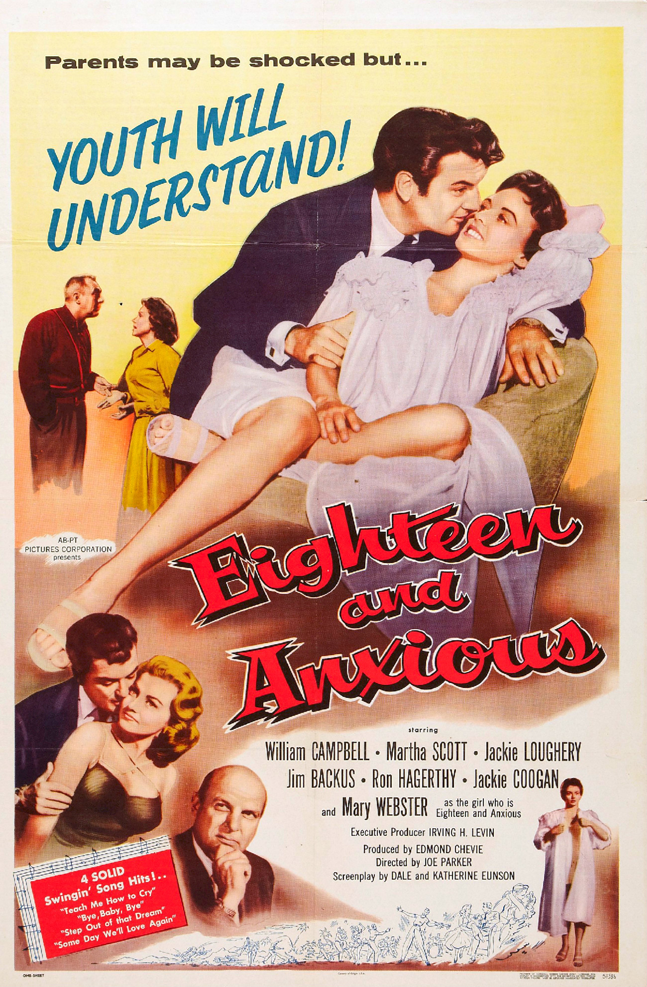 Poster for the 1957 film Eighteen and Anxious. There are no copyright marks. At bottom is One-Sheet, Country of origin USA, Property of National Screen Service Corp. Licensed for display in connection with the exhibition of this picture at your theatre. Must be returned immediately thereafter, 57-586.